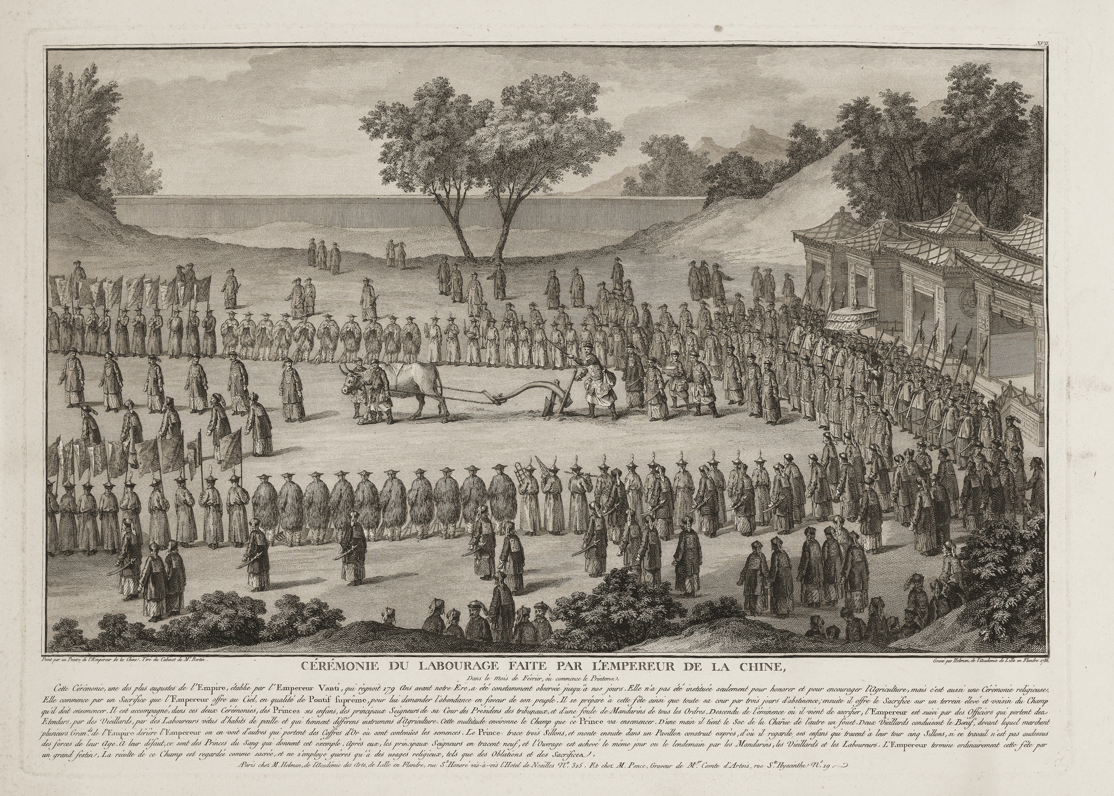 The Qianlong Emperor conducting a ceremonial ploughing to encourage agriculture